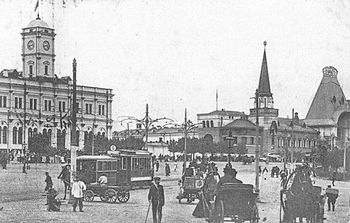 Kalanchevskaya (Komspmolskaya) Square and Nikolaevsky (Leningradsky) snd Yaroslavsky Rail Terminals, Moscow, 1910s